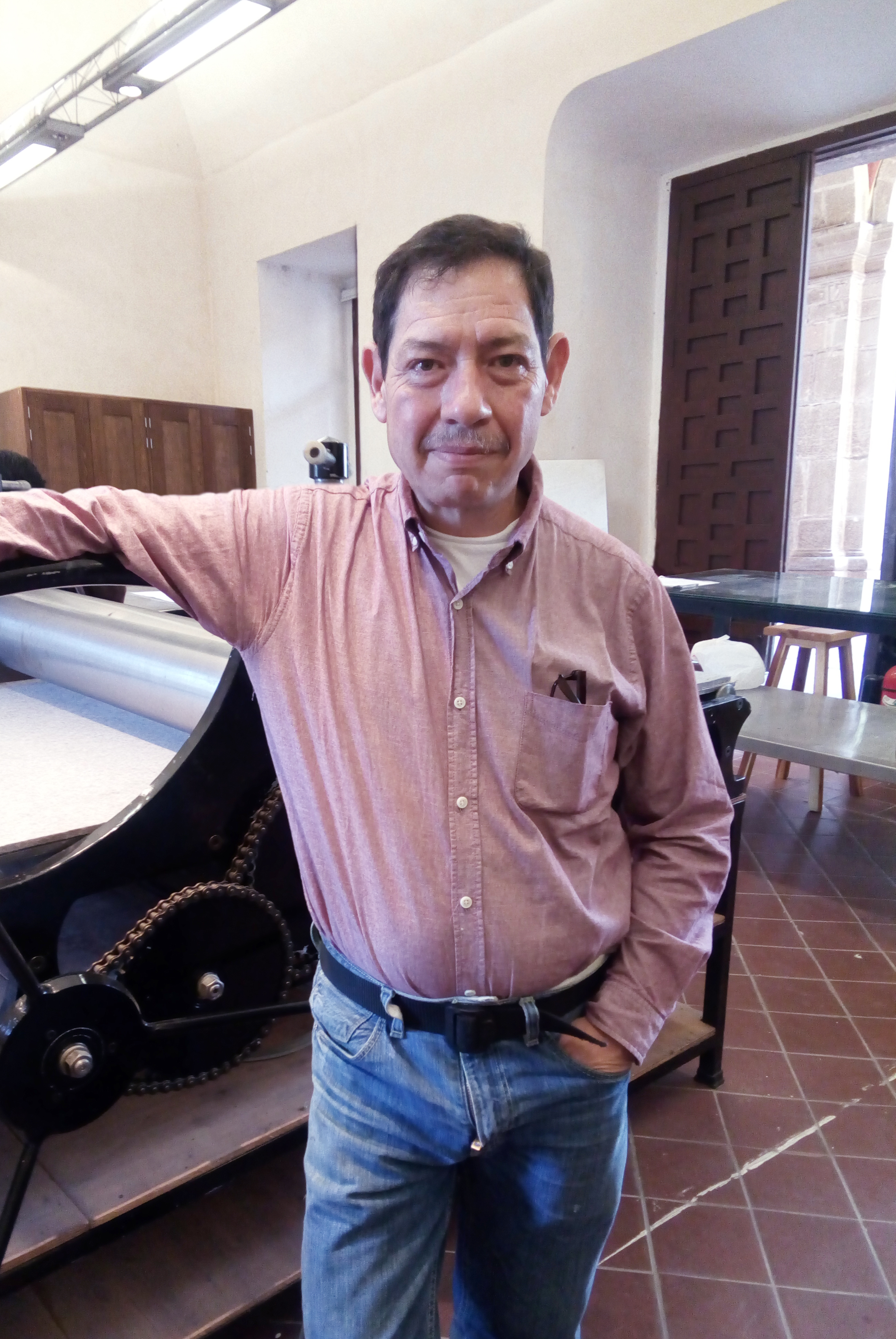 Artist Arturo Angulo giving a workshop on Printmaking in Queretaro, Mexico.